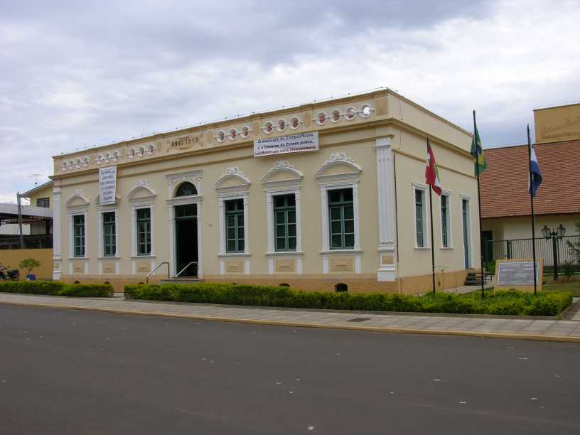 Casa da Cultura de Campos Novos, SC